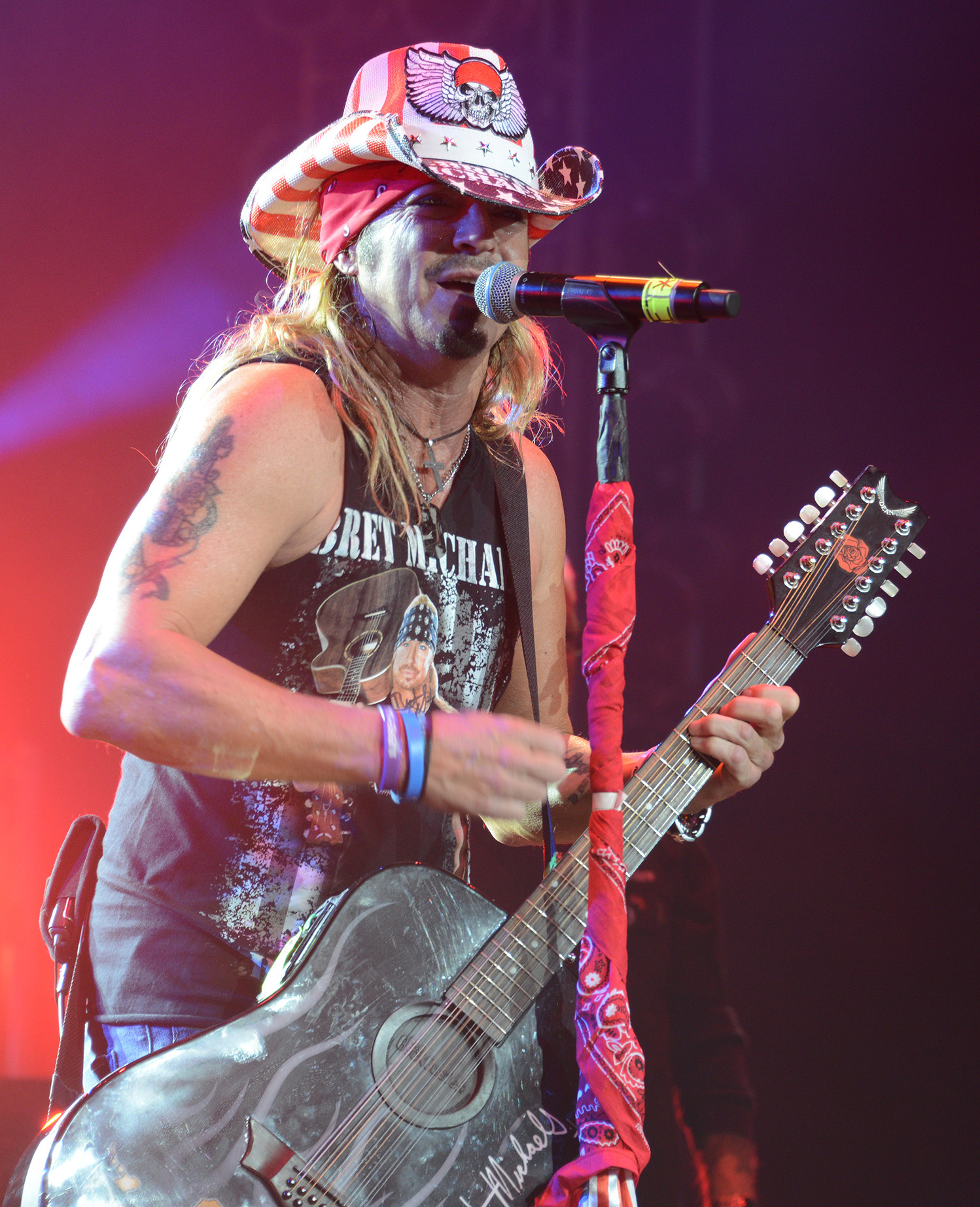 Rock musician Bret Michaels at a performance in Sioux City, Iowa on November 8, 2019. The concert is part of his five city Hometown Heroes tour. At each of the performances Michaels has been paying tribute to military members and veterans. U.S. Air National Guard photo by: Senior Master Sgt. Vincent De Groot